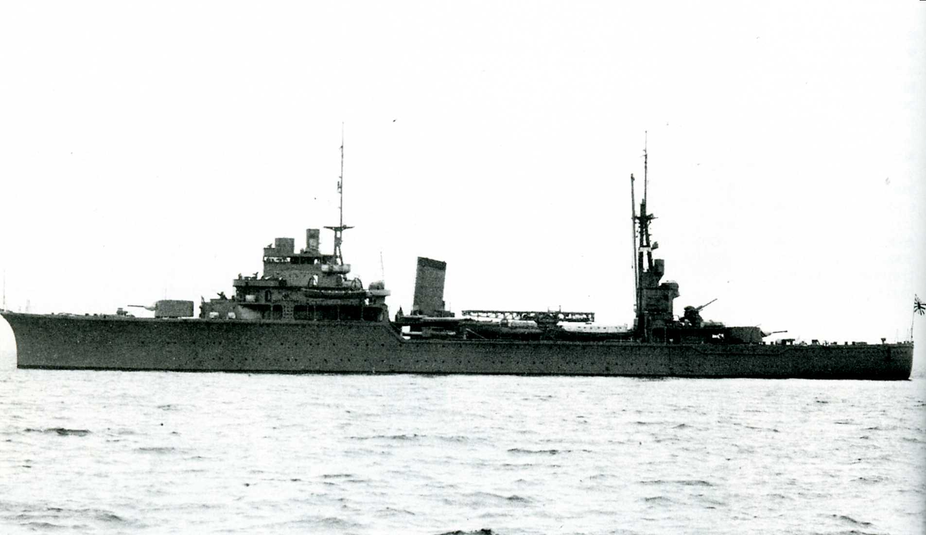 Japanese cruiser Kashii commissioning at Yokohama, July 15 1941